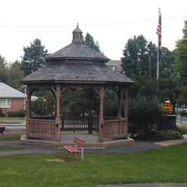 BP pavilion.